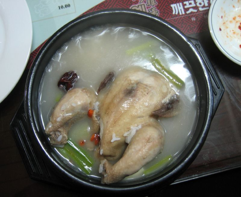 Samgyetang (chicken ginseng soup) in Korean cuisine